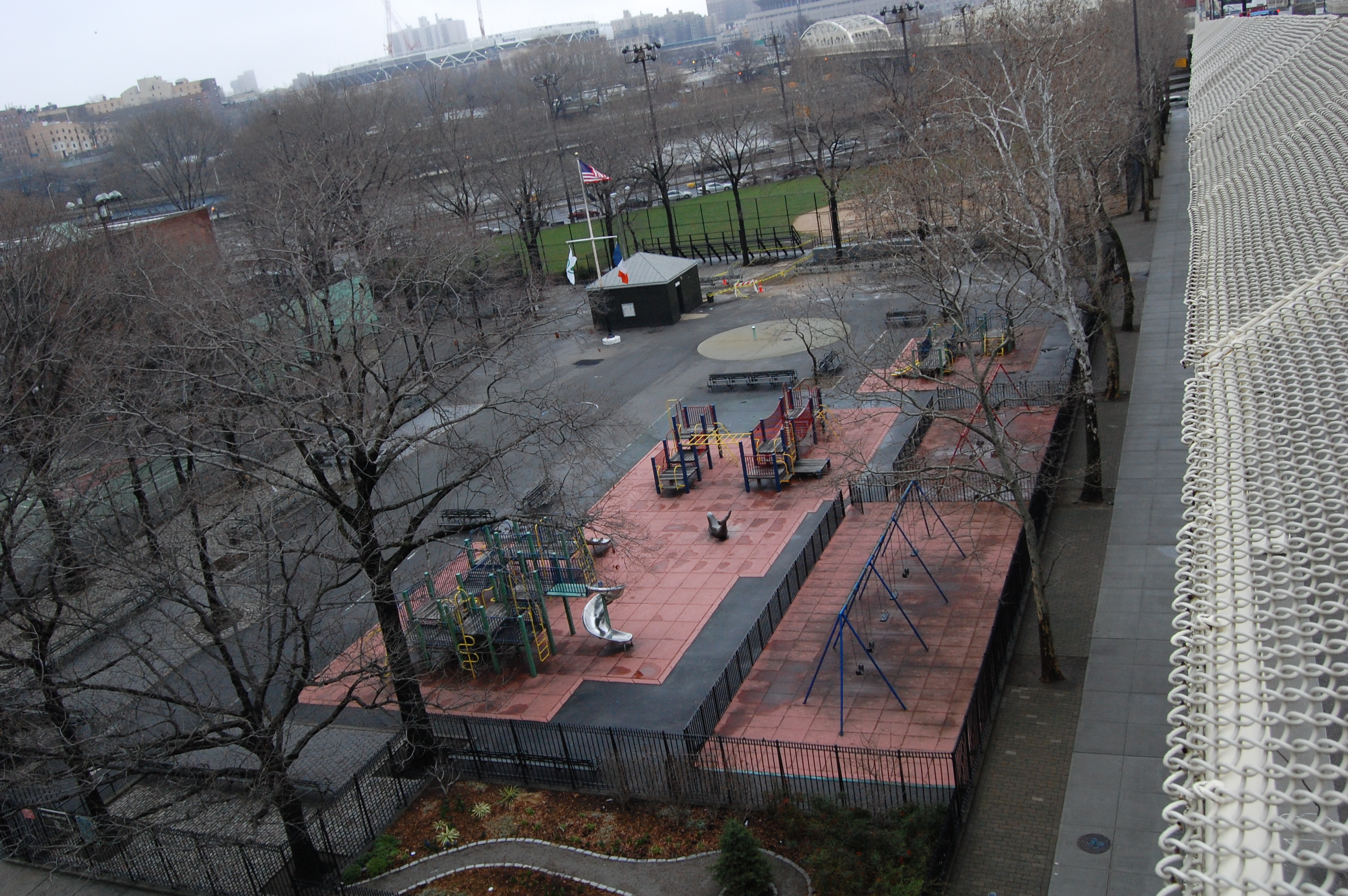 This photo is of Wikipedia Takes Manhattan location code 50, Rucker Park.